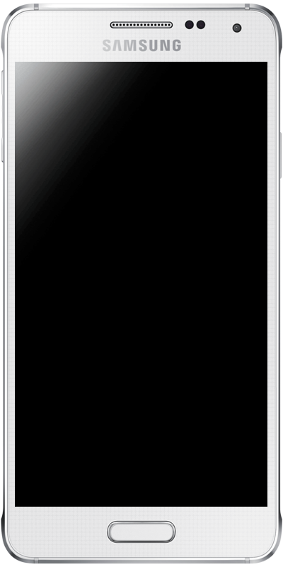 Samsung Galaxy Alpha render